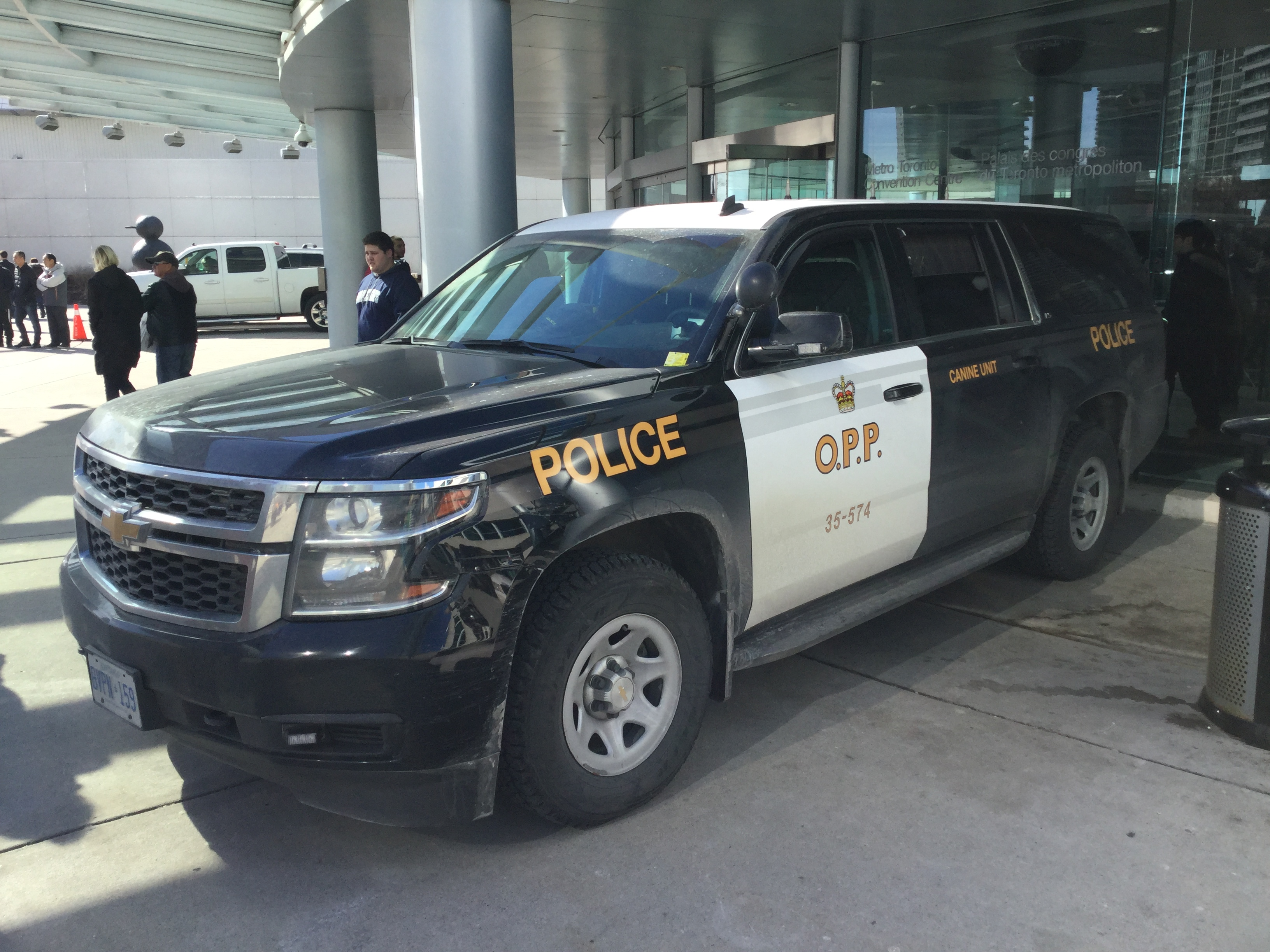 Ontario Provincial Police used by its K9 unit to transport both dogs and people.